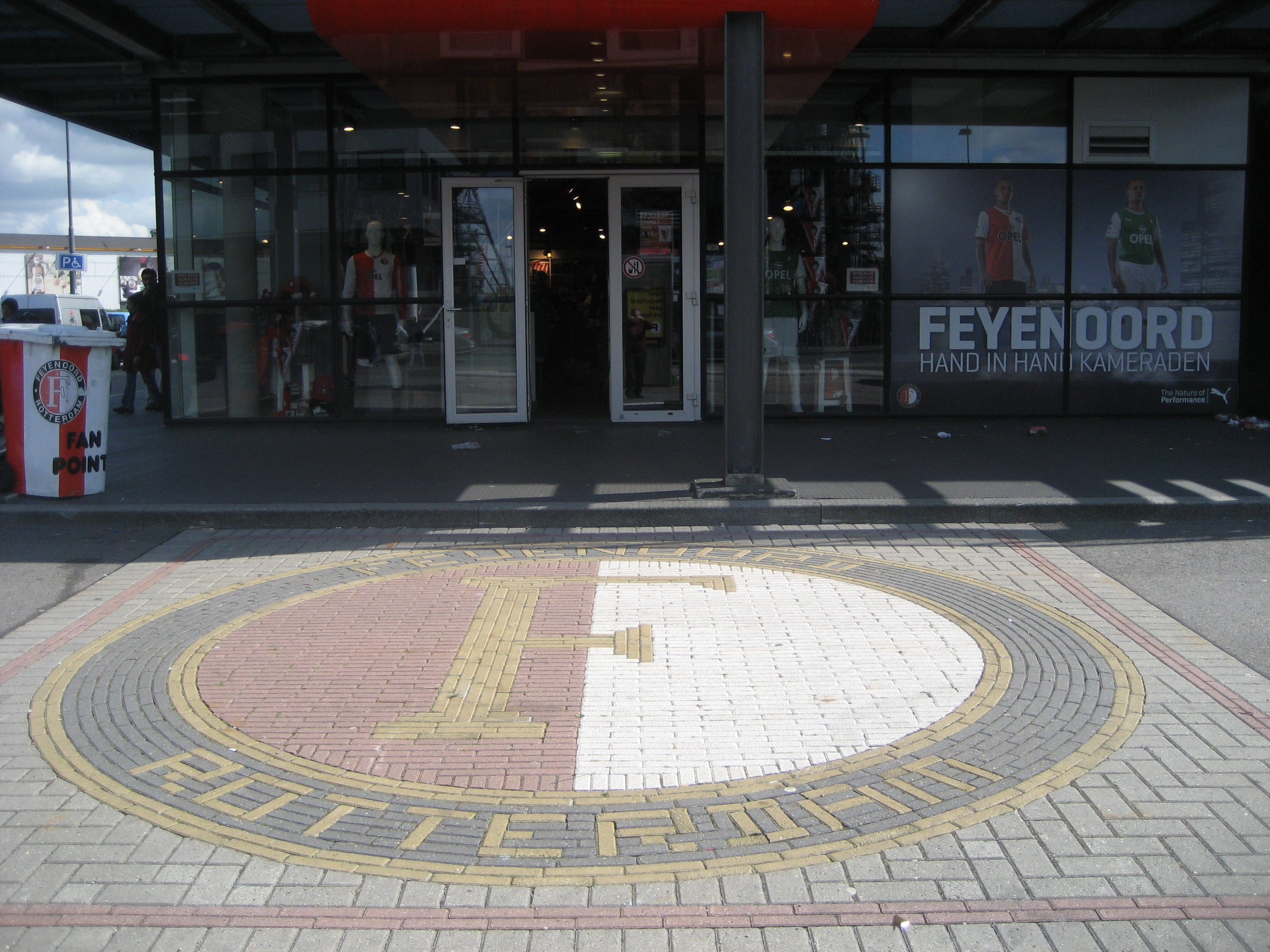 Logo of footballclub Feyenoord Rotterdam (The Netherlands). Fanclub shop Feyenoord Rotterdam near De Kuip